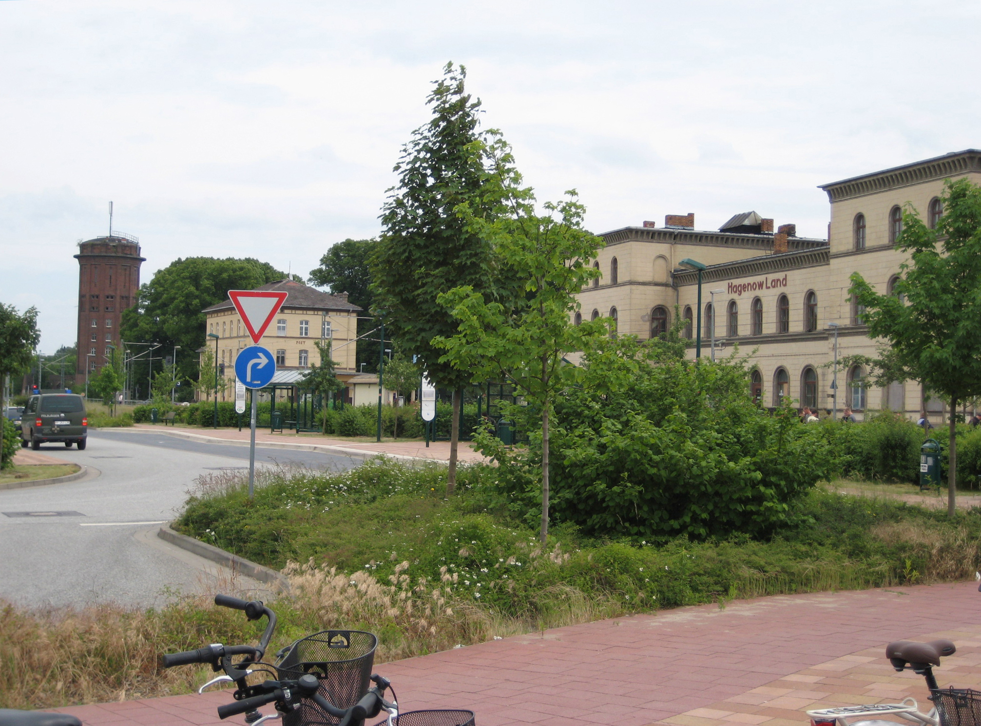 Hagenow Land train station